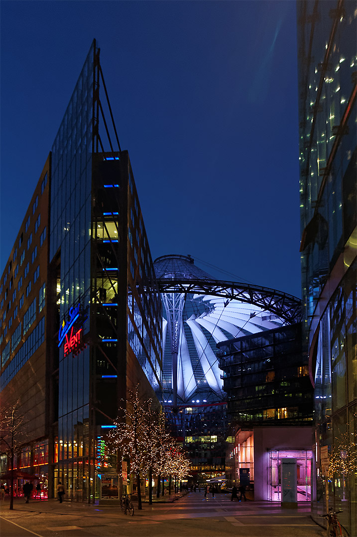 Sony Center in Quartier Potsdamer Platz, Berlin-Tiergarten, Germany (O3069621-Dv3)